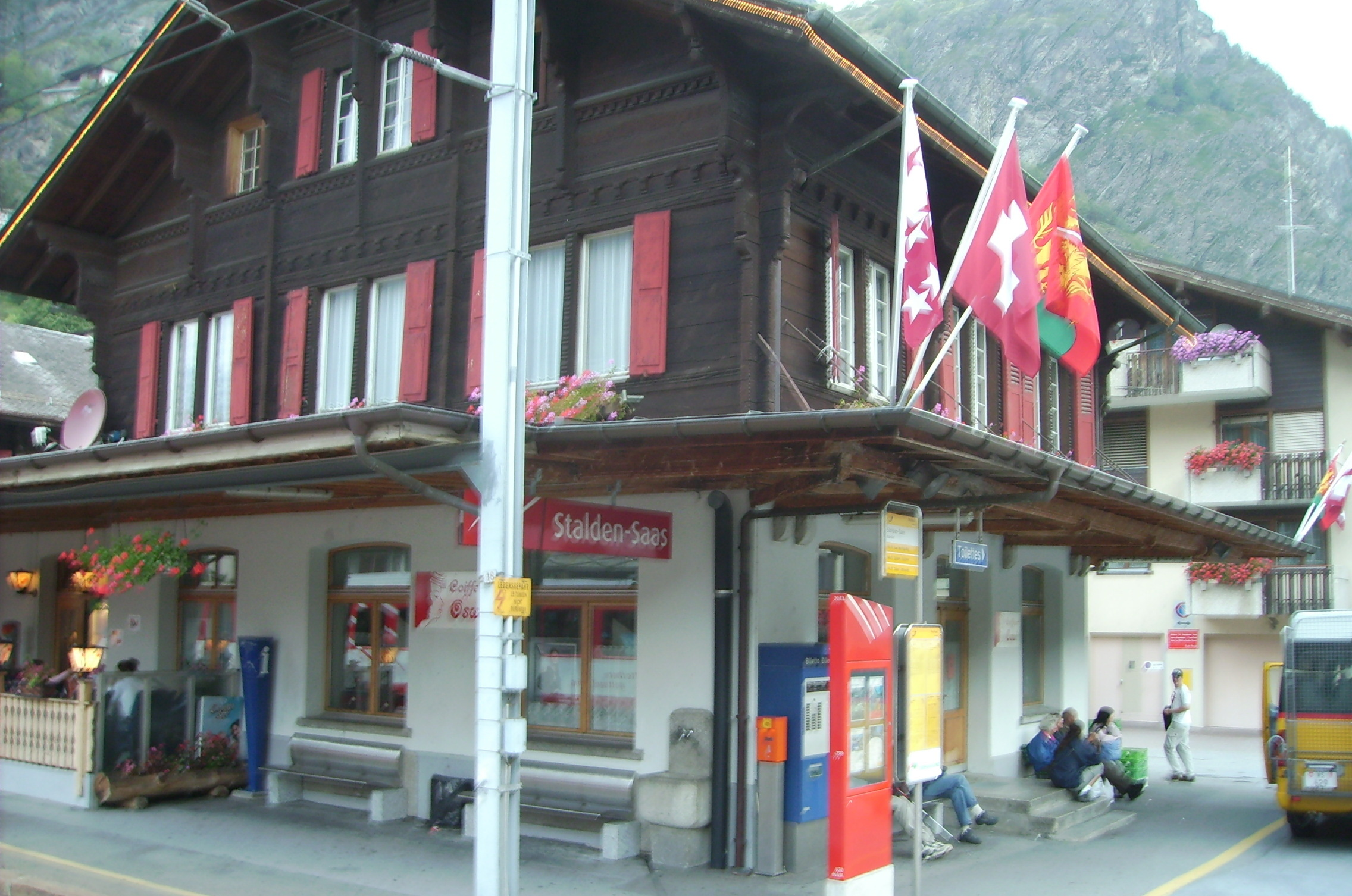 The building of the station Stalden-Saas in Stalden, Valais, Switzerland